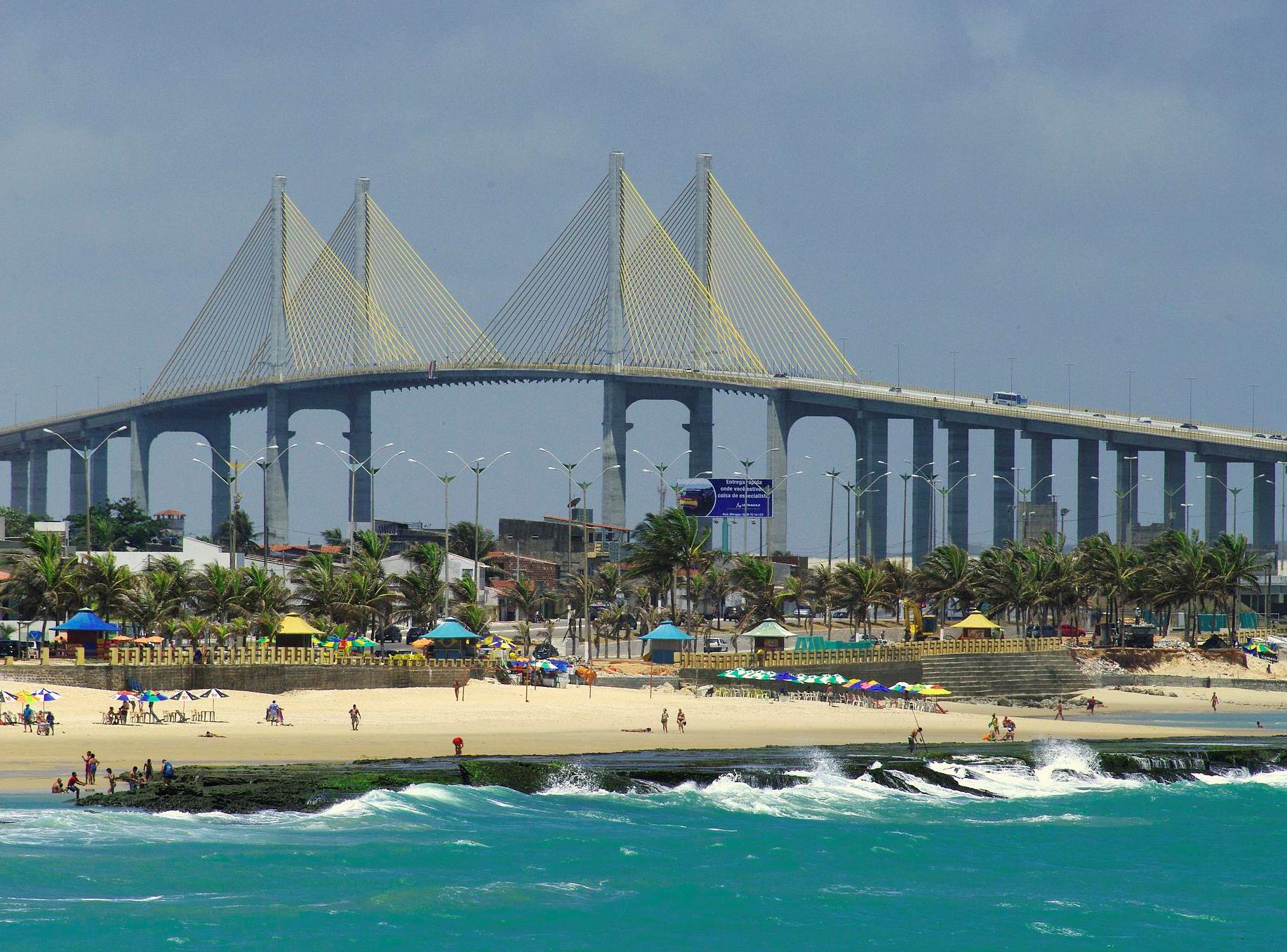 Forte beach and Newton Navarro bridge. Natal, Brazil.